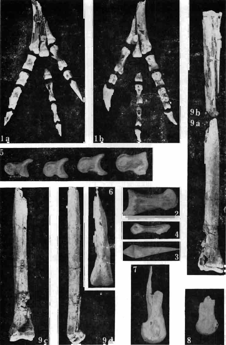 Borogovia gracilicrus. 1. Fragmentary right pes, in: a dorsal, b ventral, views; ZPAL MgD-11174, holotype, X 0.5. 2. Phalanx 11-1 of the left pes, medial view; same specimen, XI. 3. Ungual of left second pedal digit, ventral view; same specimen, XI. 4. Phalanx 111-3 of the left pes, lateral view; same specimen, XI. 5. Phalanges IV-1 to IV-4 of the left pes, lateral view; same specimen, XI. 6. Distal portion of right metatarsal 111, posterior view; same specimen, Xi. 7. Distal portion of left metatarsal IV, medial view; same specimen, XI. 8. Distal portion of left metatarsal 11, lateral view; same specimen, X1. 9. Right tibiotarsus, a distal portion and b proximal portion with fragment of the fibula attached, posterior views, c distal portion, anterior view, d distal p~rtion, lateral view; same specimen, X0.5. Nemegt Formation, ?Late Campanian or ?Early Maastrichtian, Ultan Ula IV, Nemegt Basin, Gobi Desert, Mongolia